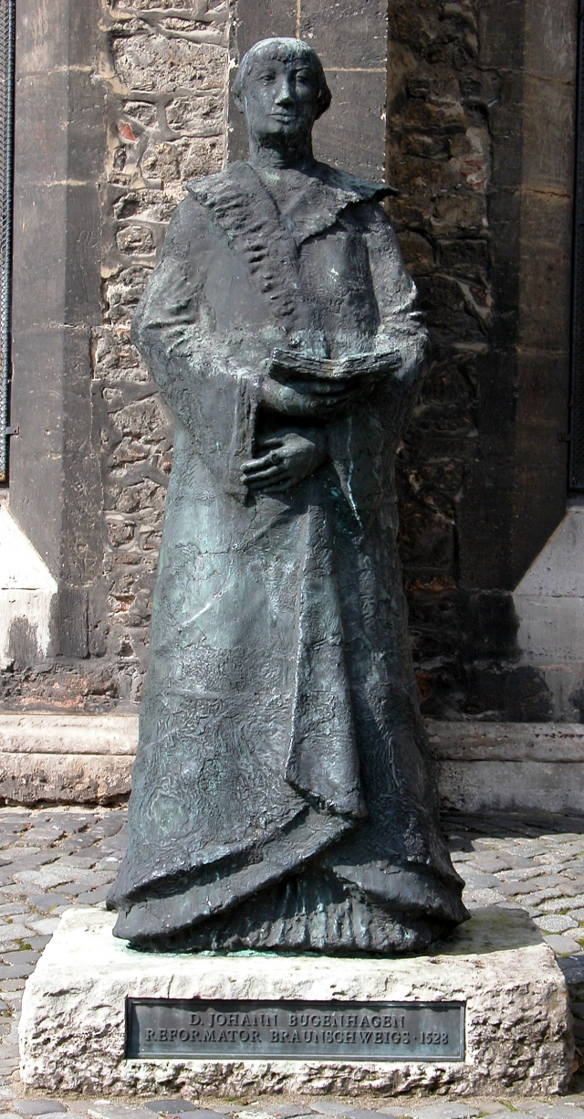 Brunswick, Germany: Bugenhagen (from 1970) by Ursula Querner-Wallner.